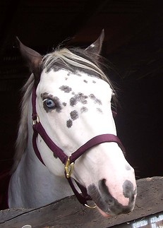 Today I went to the Fair - horses, kids, flowers, rabbits and etc. The horse, a Paint, is named "Cool", he has beautiful blue eyes just like crystal marbles. Colourwise he's a Tovero (part Tobiano and part Overo). That colour combo can produce about 10% blue eyed. From Alberta and for first three years he ran wild, two years later he's gentle as a pussy cat and quite the show horse.